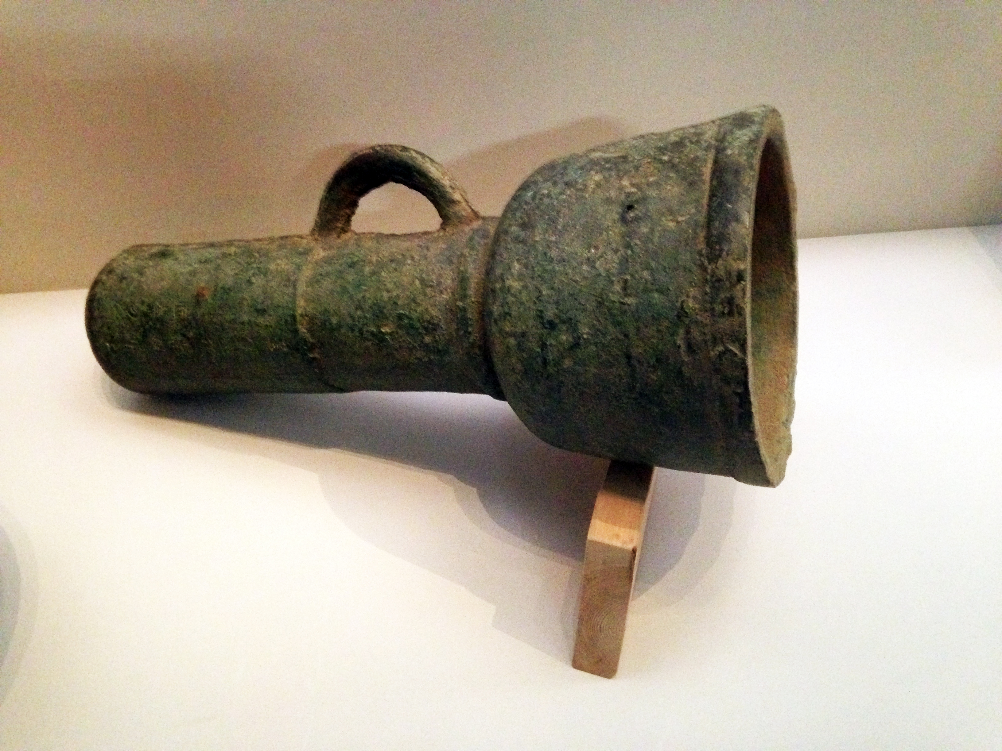 Jungwan'gu, which literally means "Medium Cannon" in korean